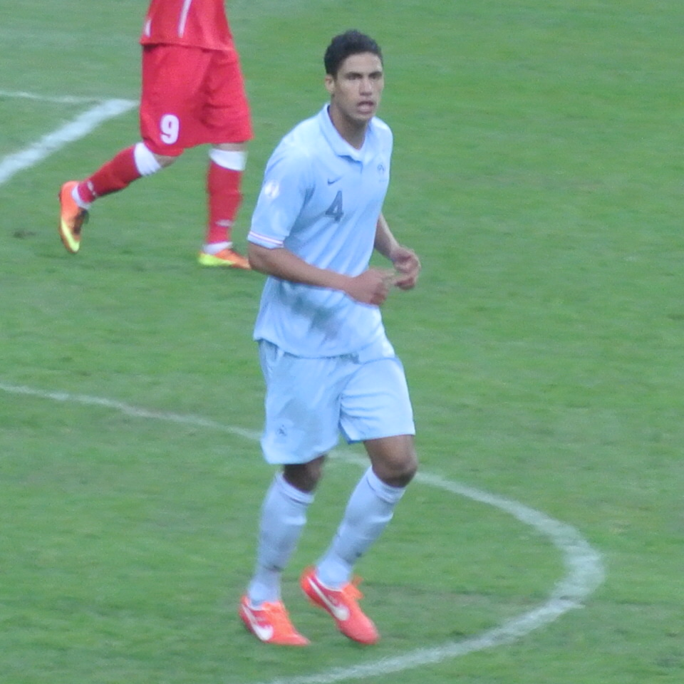 Varane with French A team against Georgia (2013-03-22).